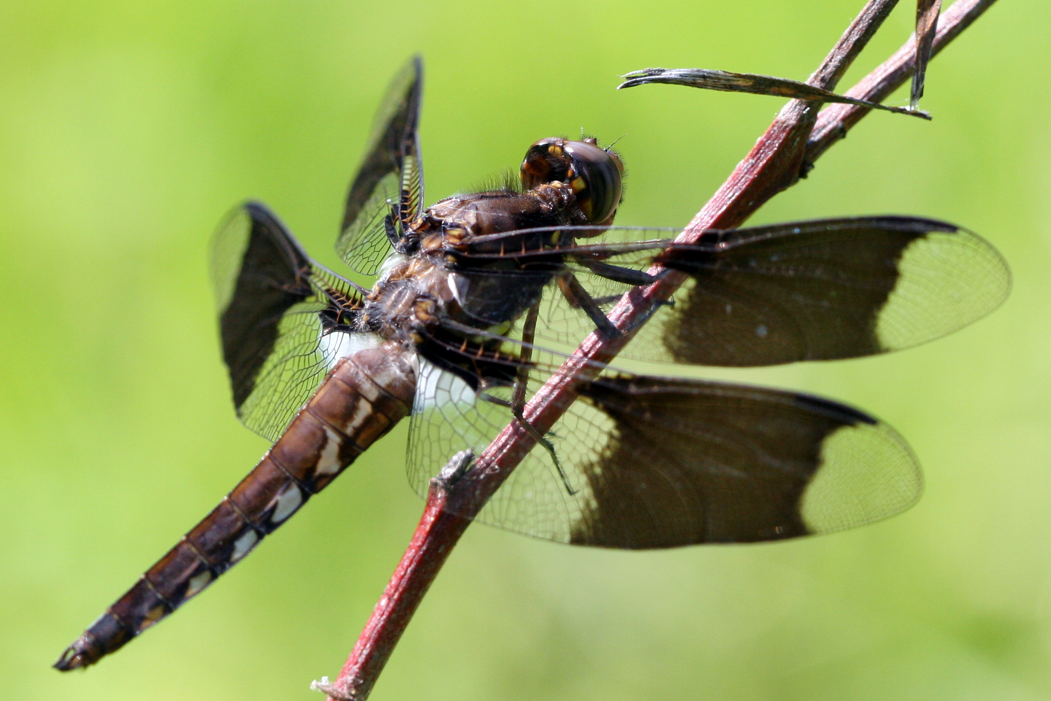 Common Whitetail dragonfly, photographed by Alexandre Dion in Québec, Canada.